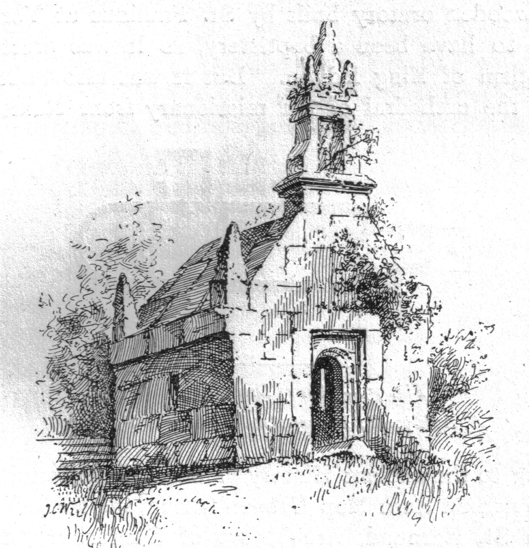 Dupath Well in Cornwall / Kernow